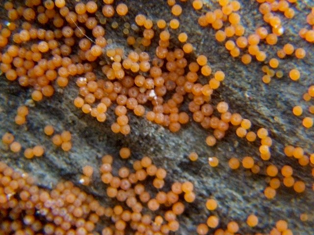 A fungus - Nectria peziza. From a distance, this looks like an orange patch on wood, but a closer look reveals that it is a scattering of tiny orange globes that are no more than half a millimetre across, but still clearly visible to the naked eye. Each globe has a tiny dark dot at the top, where it has an opening. These fruiting bodies are globular, but can collapse into a cup shape when dry. Compare another common Nectria species: 1009633. The example shown in this photograph was growing on the trunk of a tree that stands beside a footpath.